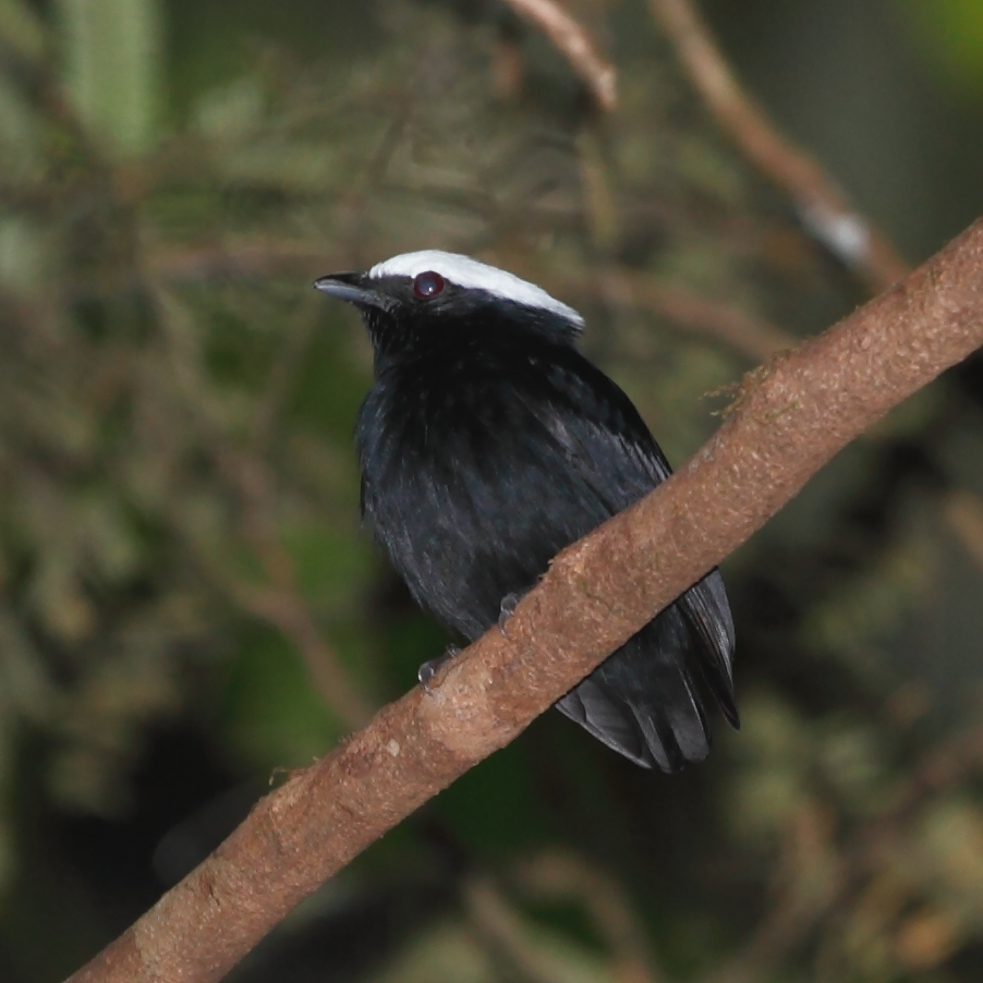 White-crowned Manakin (male) at Manaus - AM - Brazil